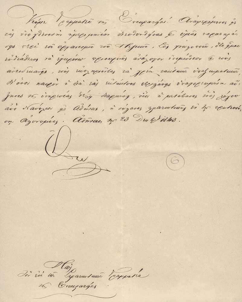 A letter of Otto, King of Greece to his Secretary (Minister) of State Military Affairs, Andreas Londos, 23 Dec. 1843